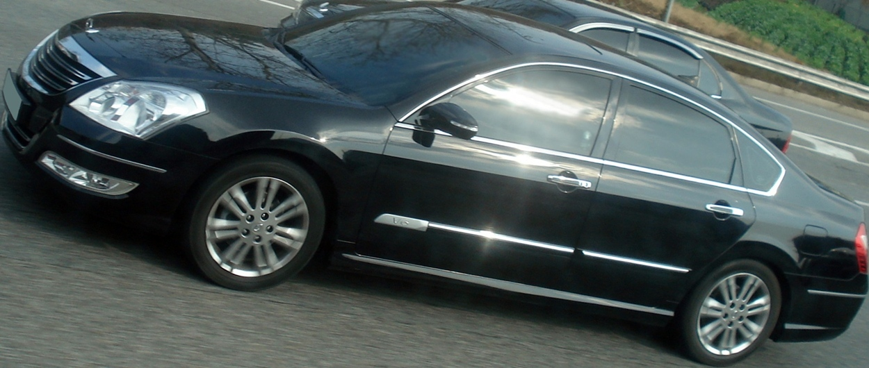 Renault Samsung SM7 New Art